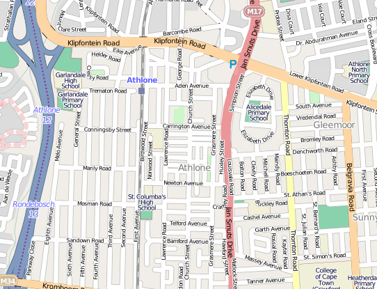 This map of Schotsche Kloof in Cape Town was created from OpenStreetMap project data, collected by the community This map may be incomplete, and may contain errors. Don't rely solely on it for navigation.